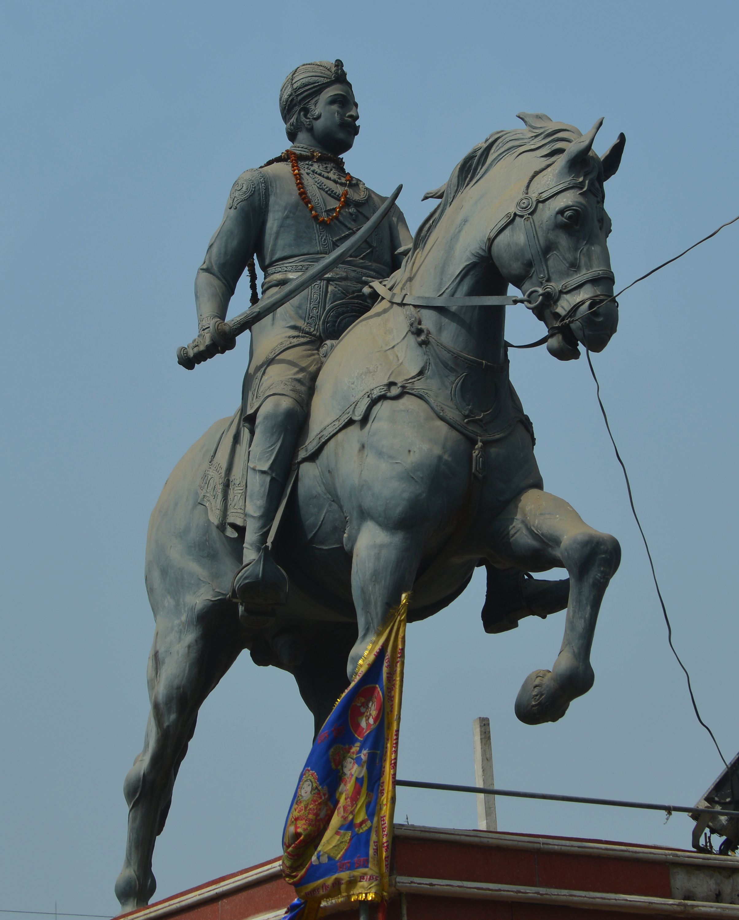 Statue of Rao Gopal Dev, Rewari, India